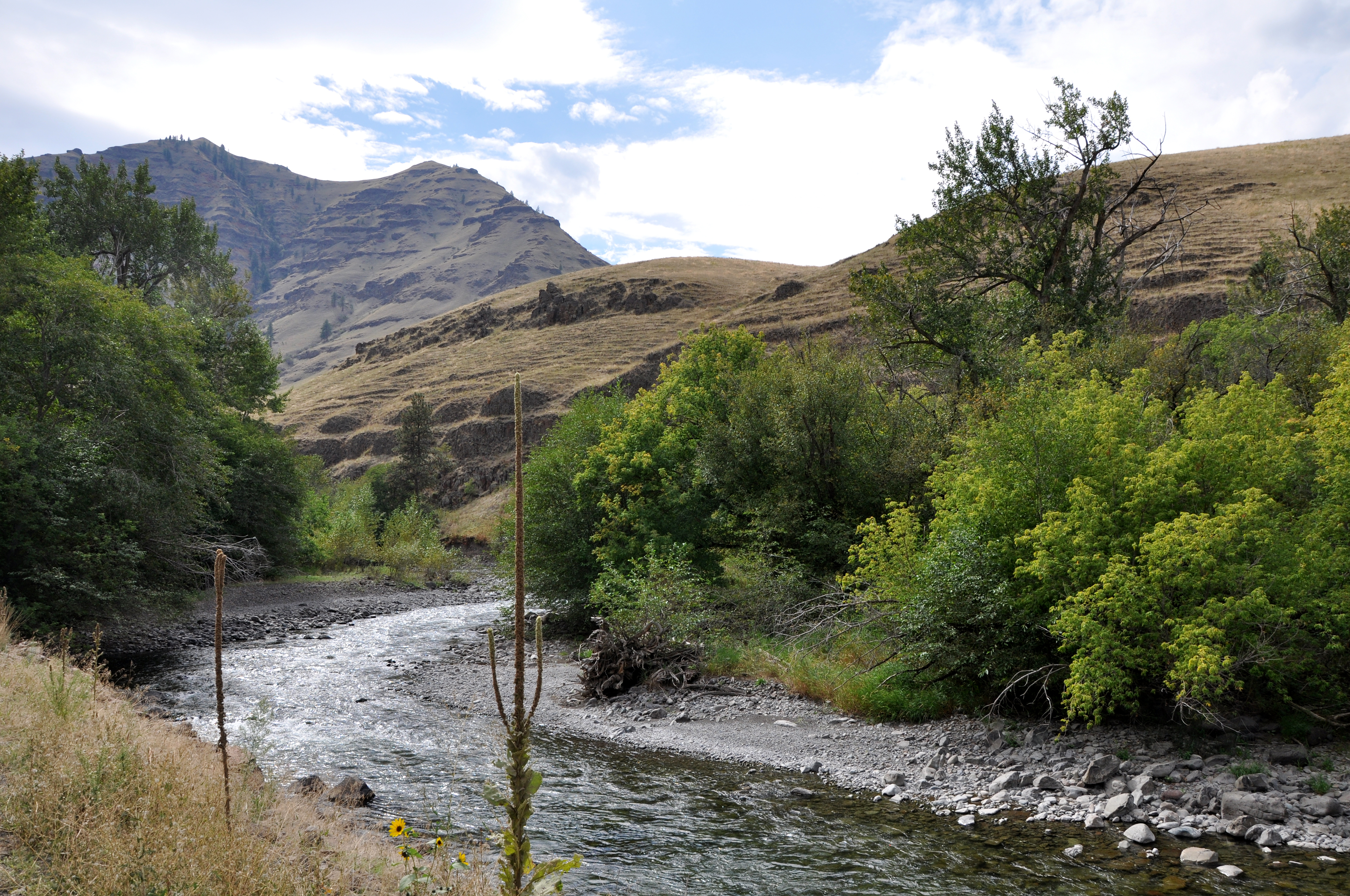 Imnaha River upstream of Imnaha, Oregon in the United States